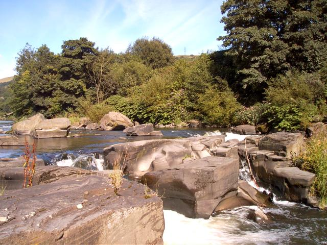 Waterfall on the Taff upstream of the disused railway bridge. View is of a waterfall on the river Taff north of the centre of Pontypridd and is used for paddling and picnicking in the summer.